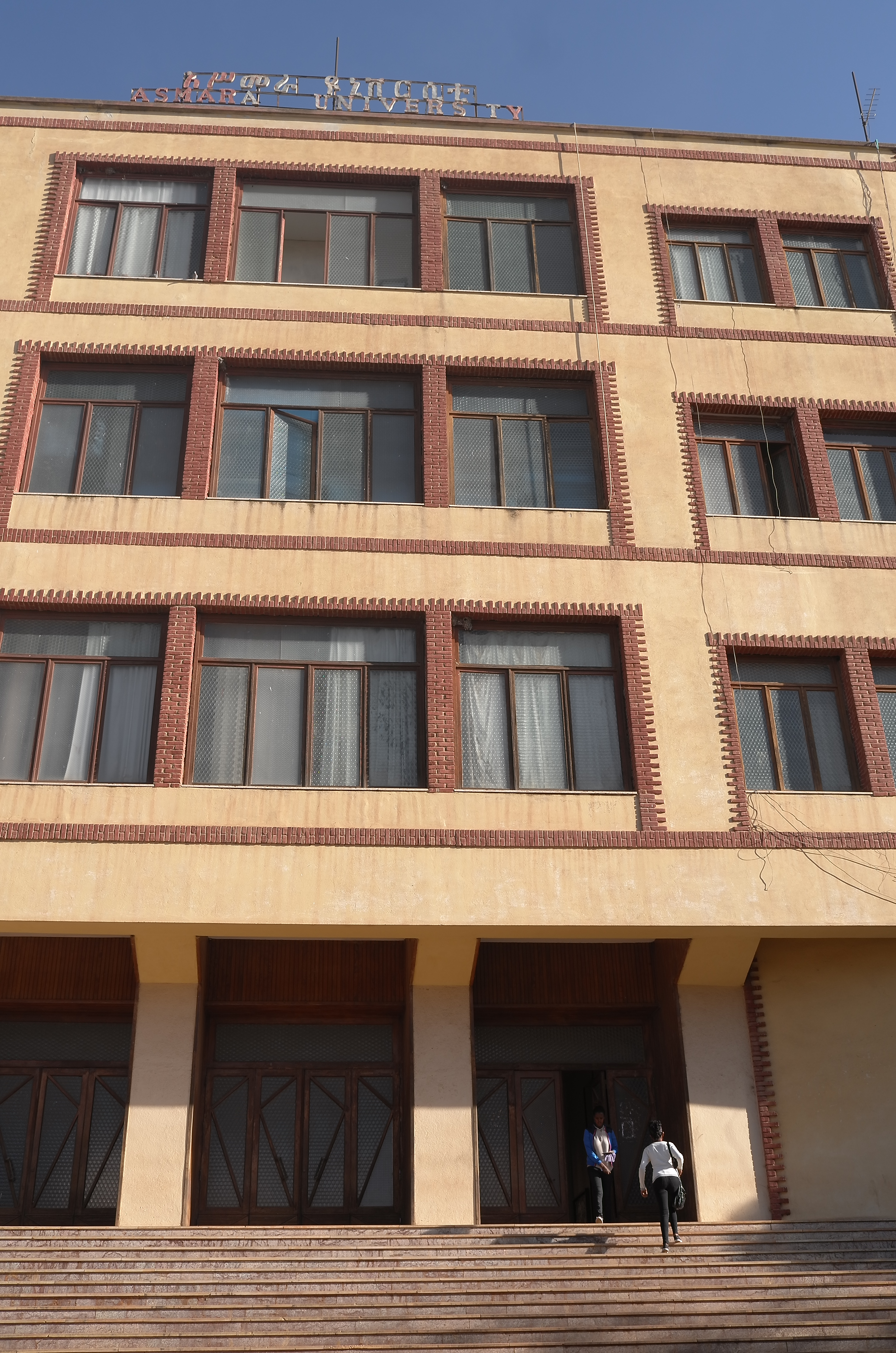 Picture taken on assignment for read more